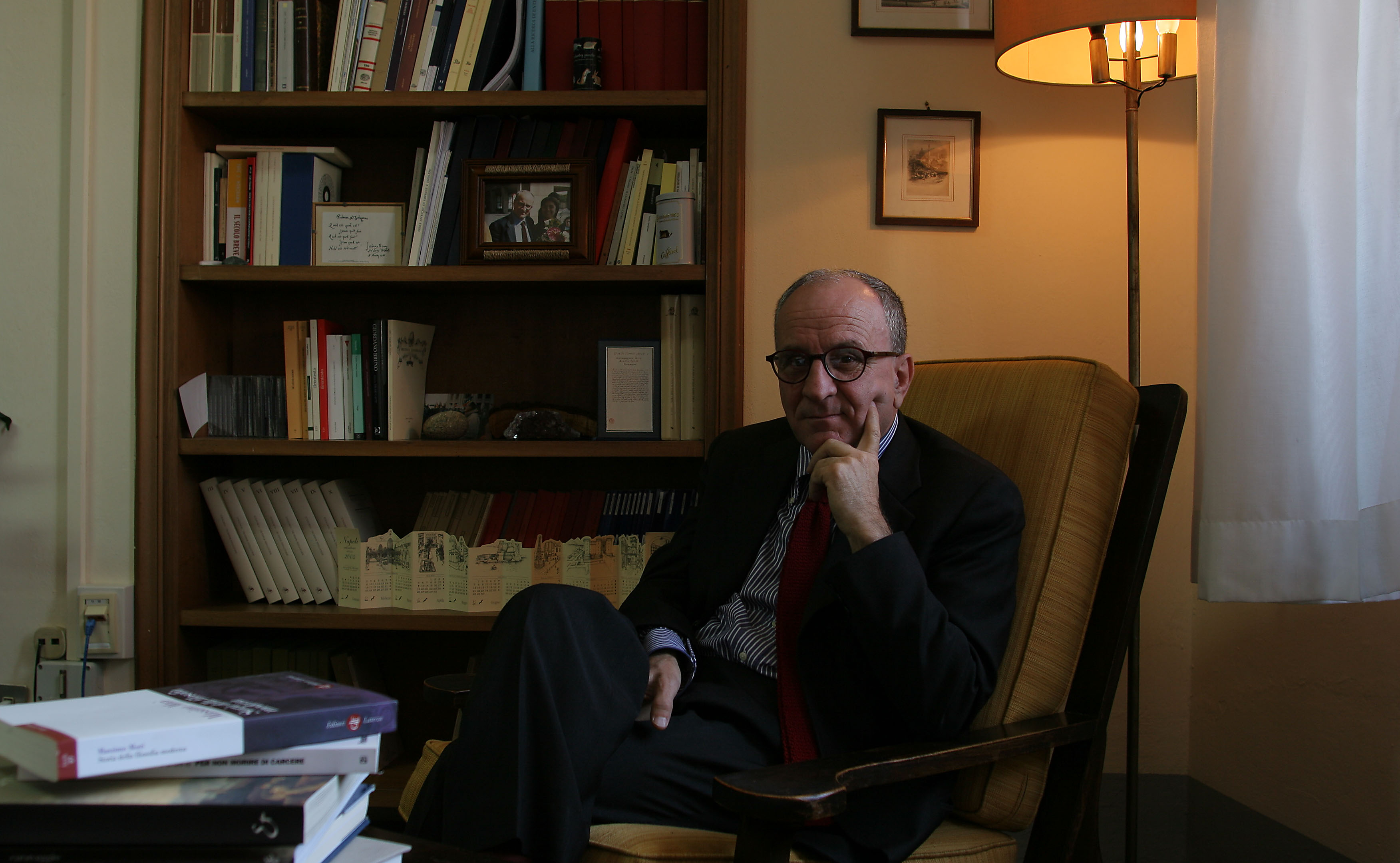 Michele Ciliberto